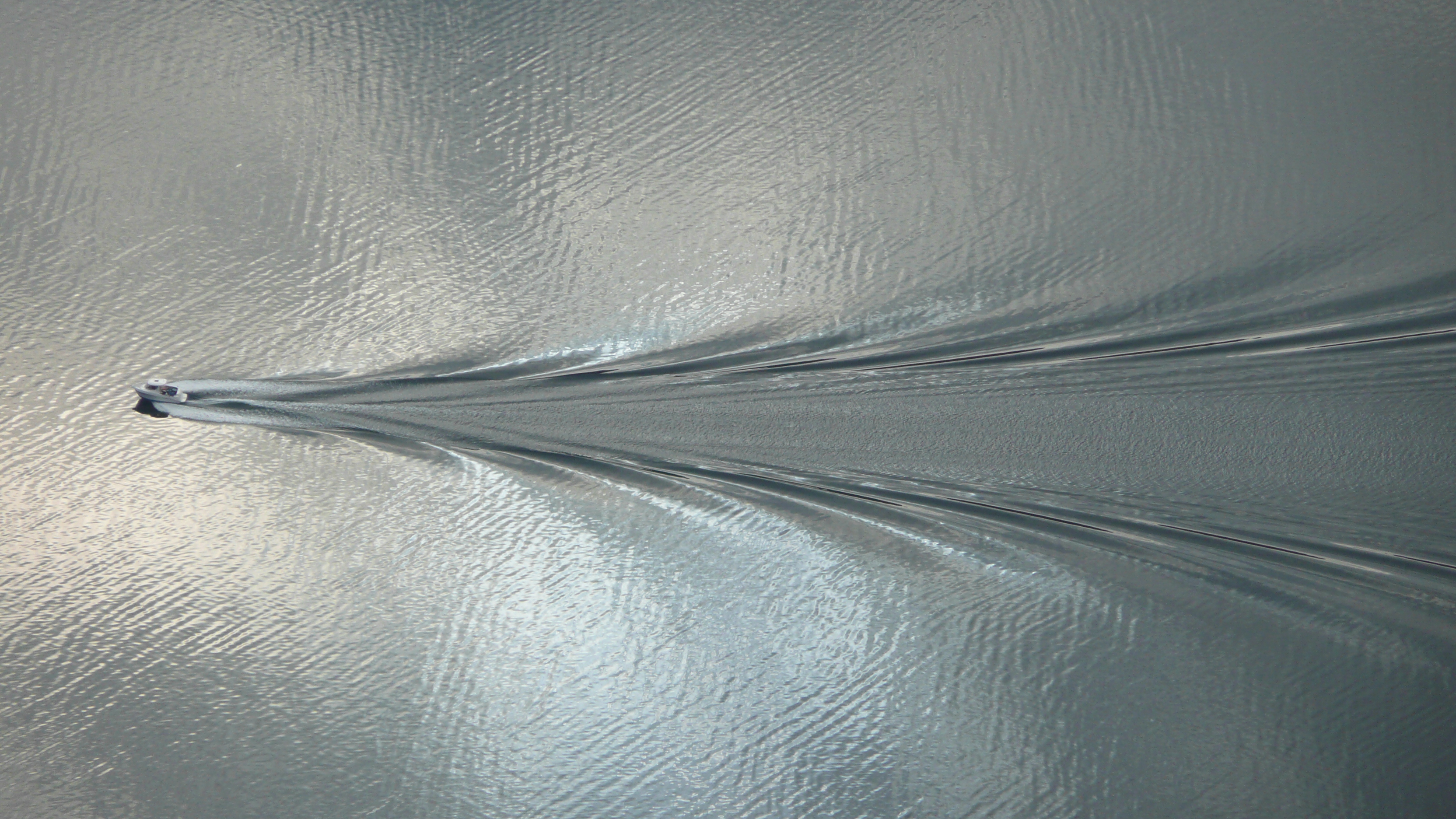 Boat sailing the Lyse fjord in Norway. Picture taken from the Preikestolen.